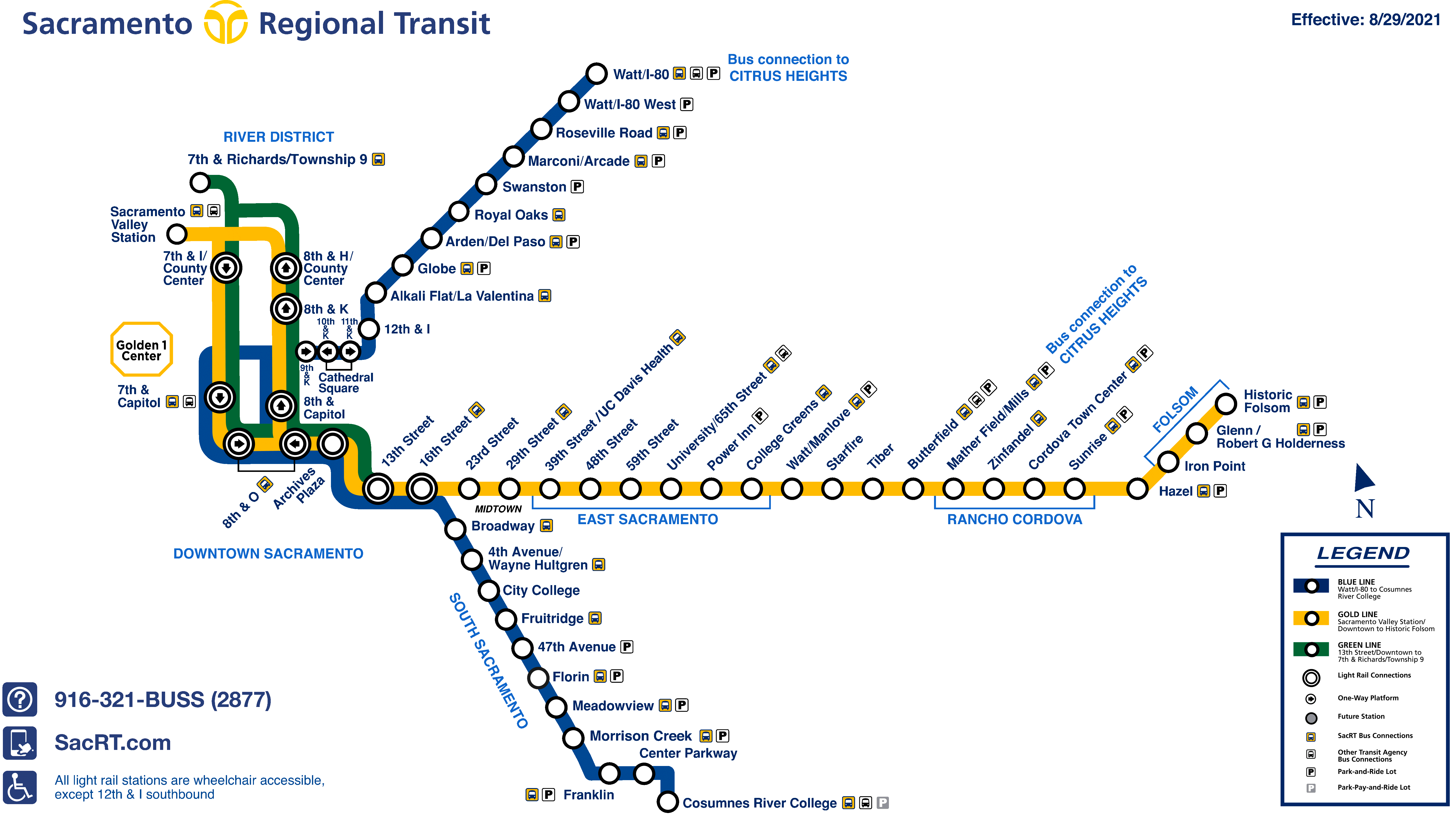 A current system map of the Sacramento RT Light Rail